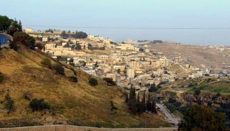 Village of Silwan below Mount Zion